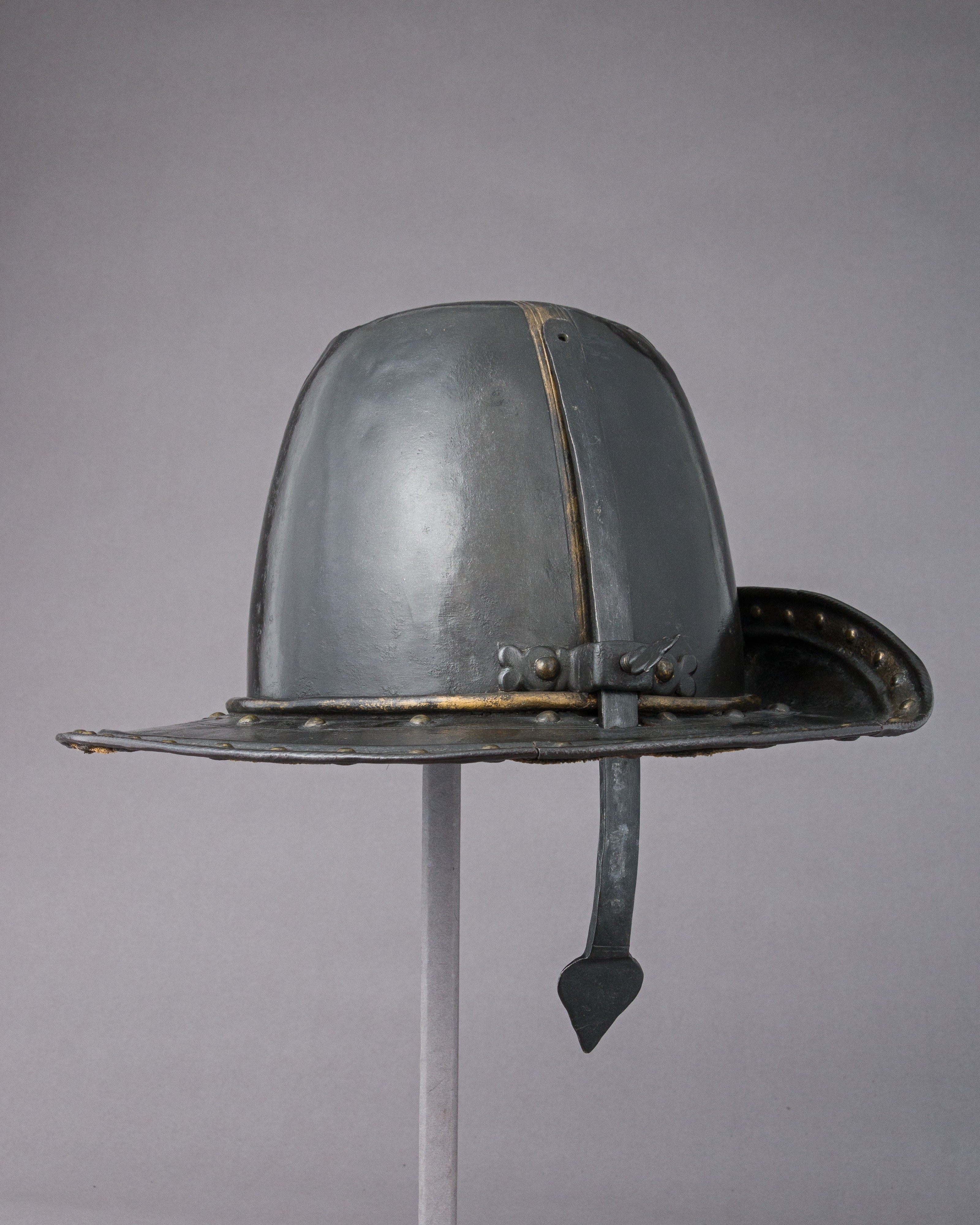 probably British; Helmet; Helmets